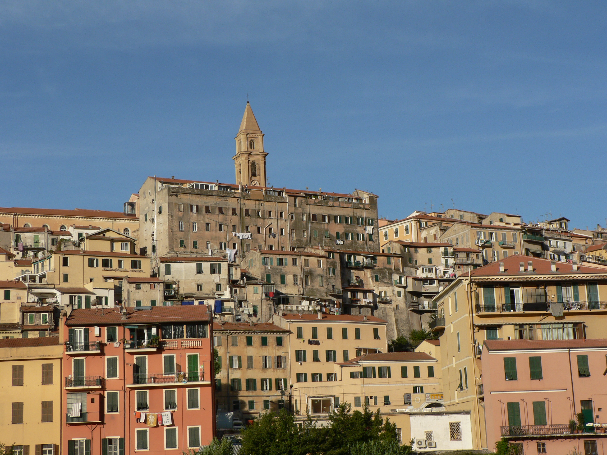 The Italian city of Ventimiglia on the French border.